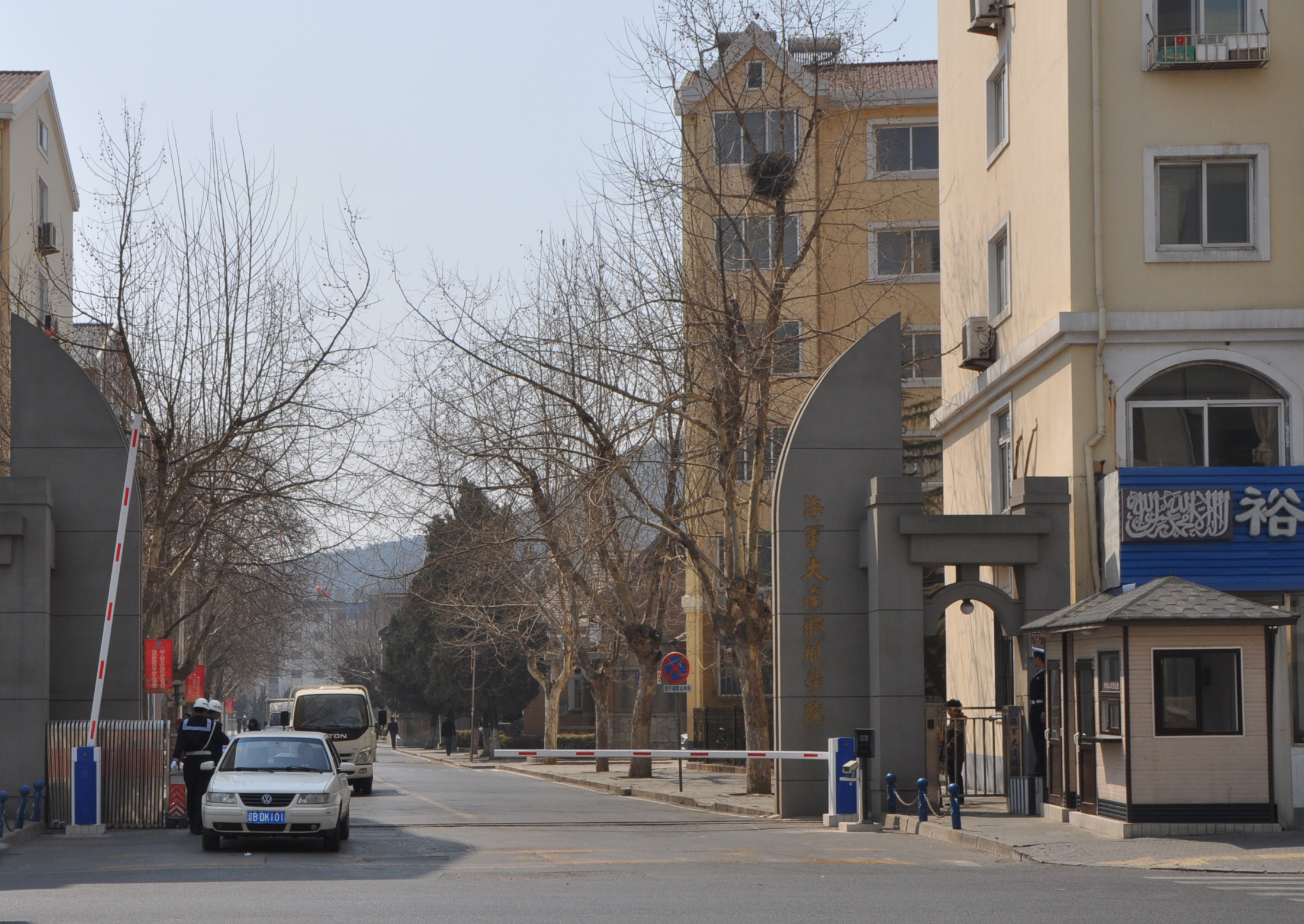 Dalian Naval Academy, China - The Main Gate